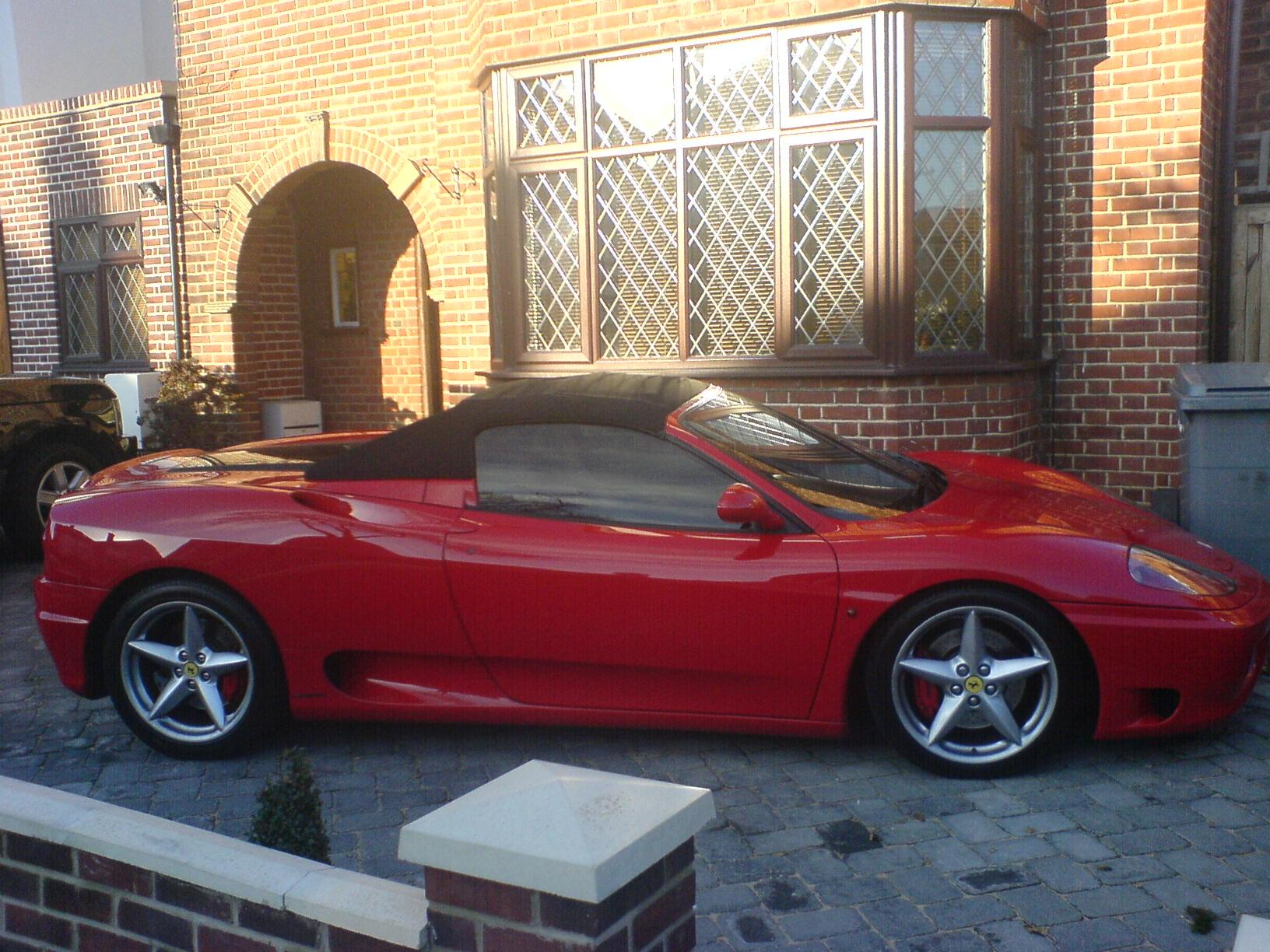 The Ferrari 360 Spider This model has a retractable top.